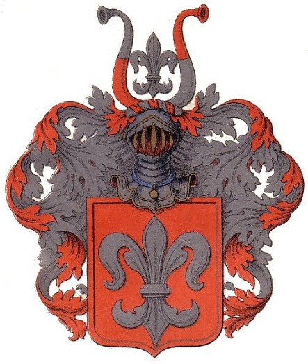 Coat of arms of the Bardenfleth family